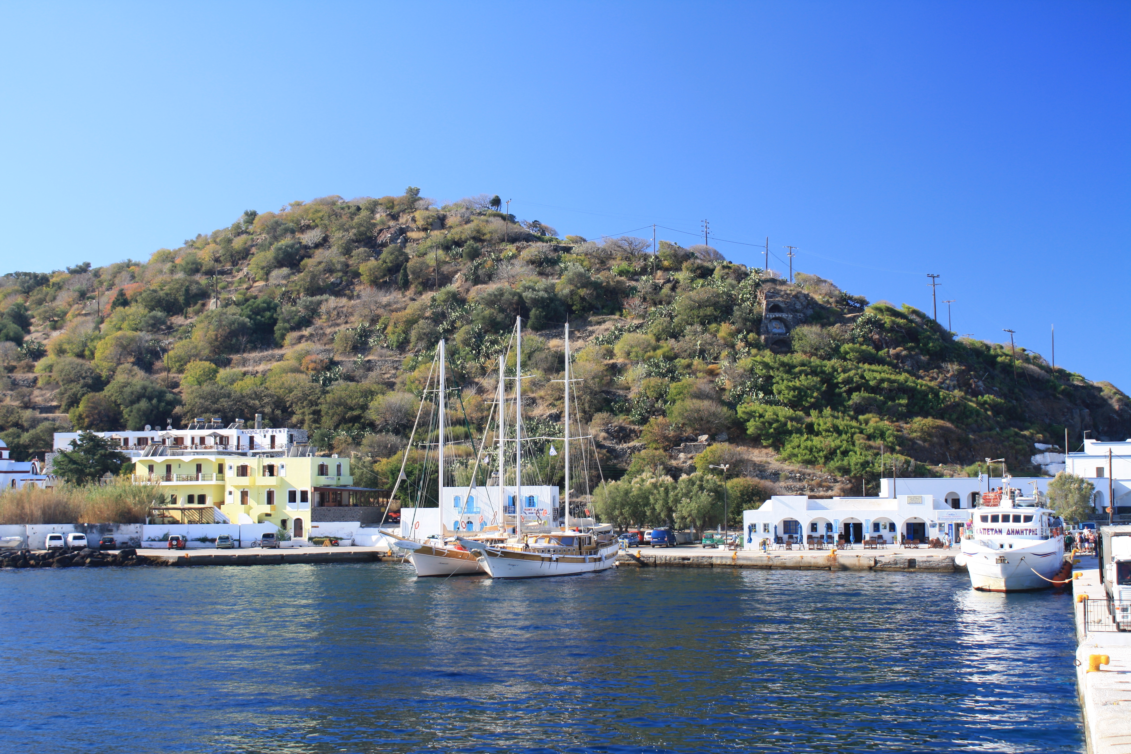 The harbour of Mandraki, Nisyros, Greece.